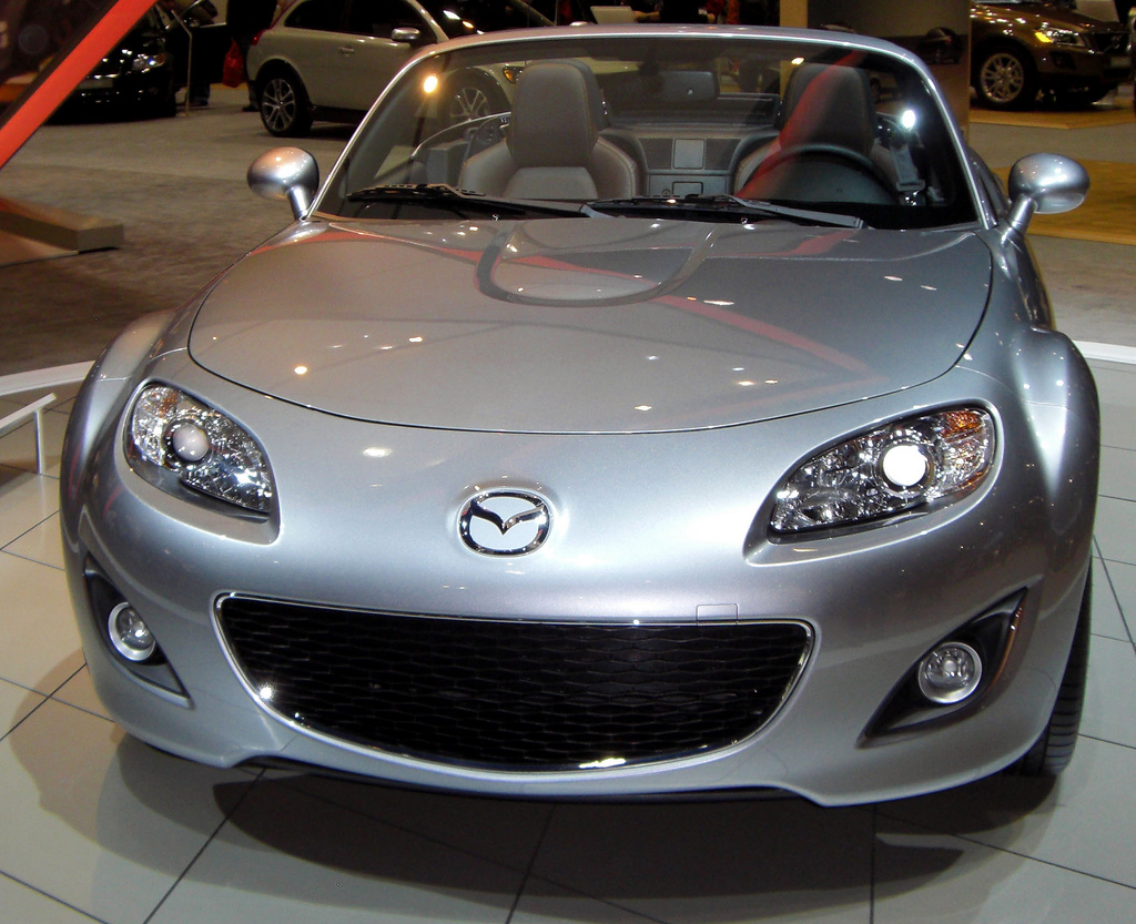 Mazda MX-5 NC Facelift at Chicago Auto Show (2009)